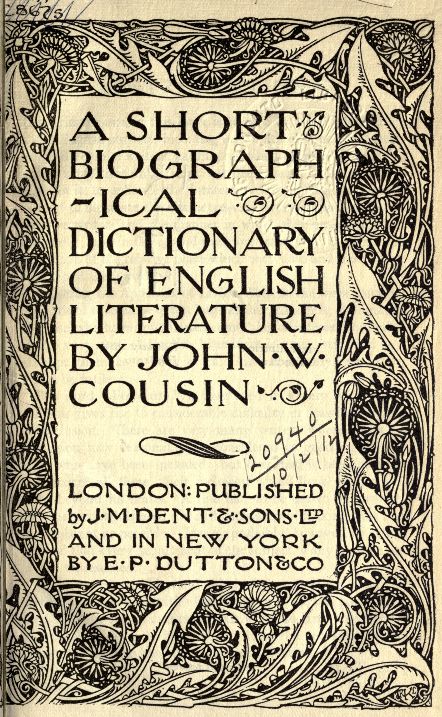 A decorated page in the front matter, page iv, of A short biographical dictionary of English literature, John William Cousin companion page to File:A short biographical dictionary of English literature, title 1.jpeg